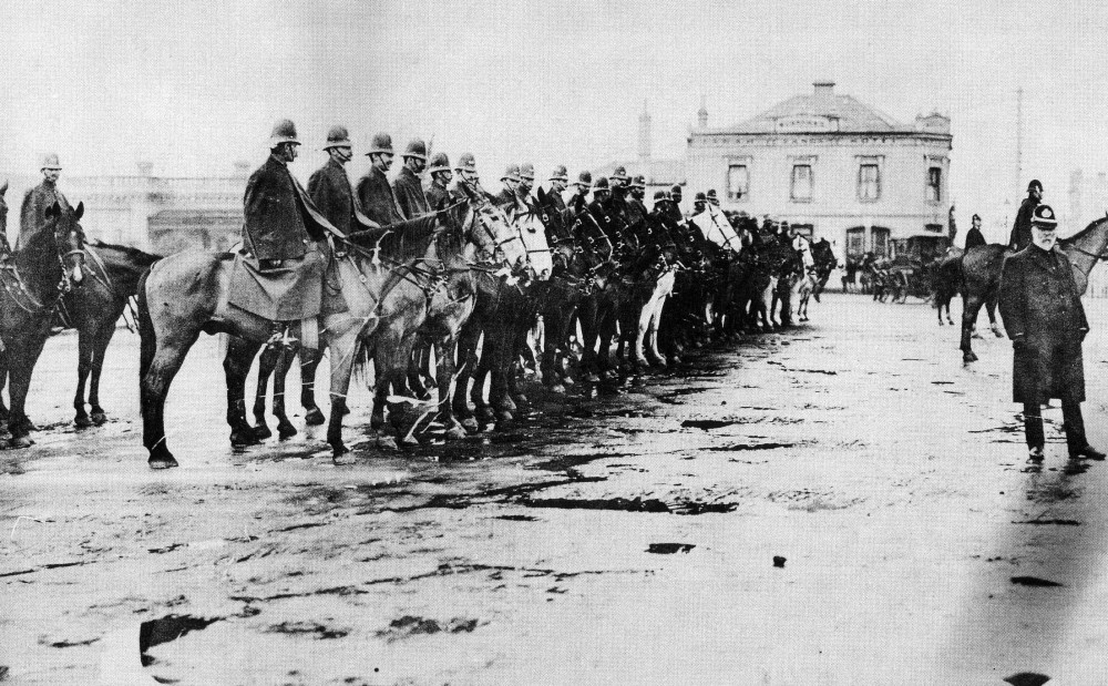 Mounted police await a march of The Loyal Orangemen Outside the Sarah Sands Hotel in Brunswick in 1893. Photo believed to be in the Public Domain. The image is originally from The Weekly Times, July 24 1897. The photo is titled - Police Await March, Melbourne, 1893. No copyright details specified for photo. This photo also occurs in The Weekly times, July 24 1897